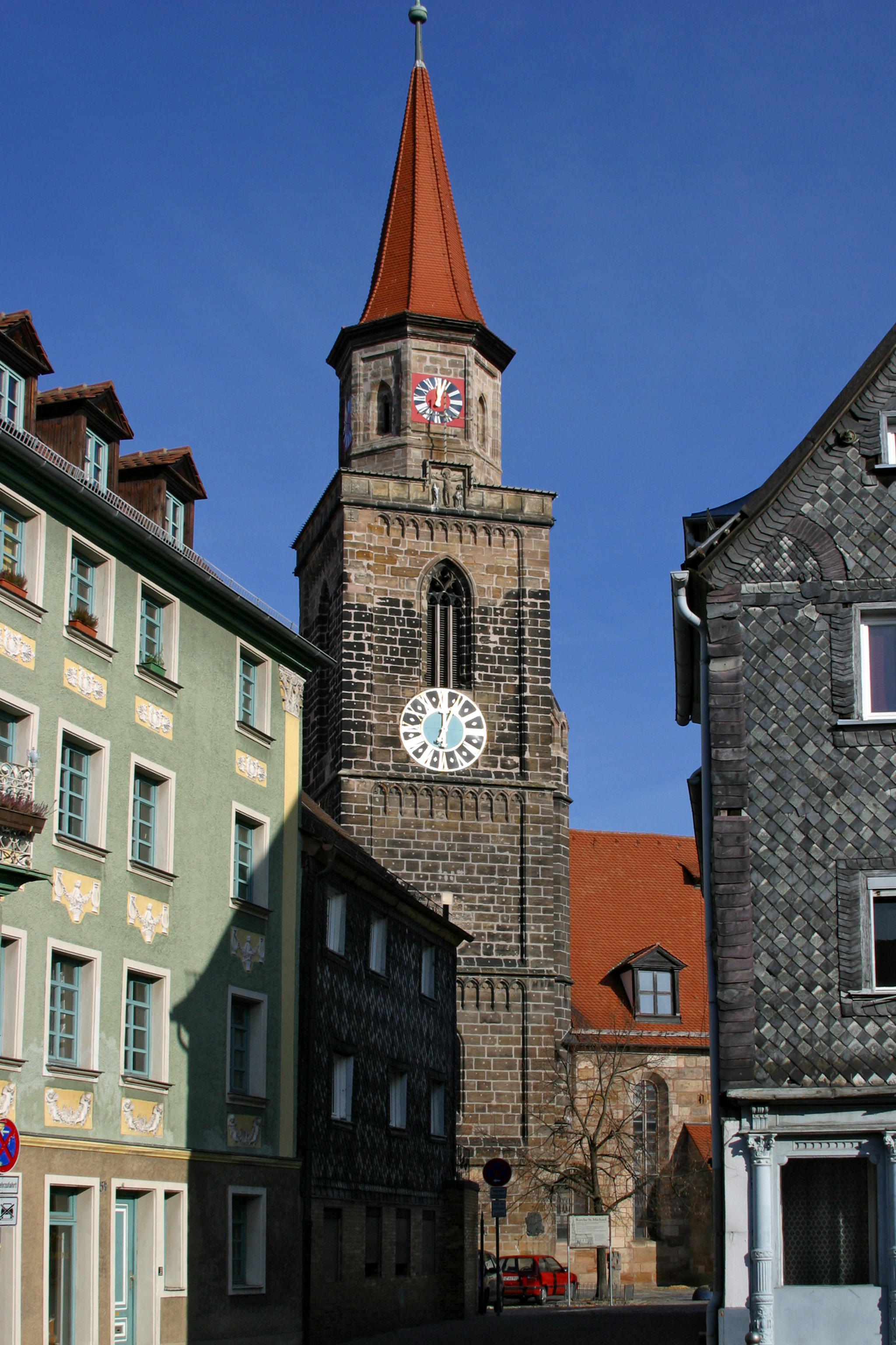 Picture from Fürth (Bayern) Germany